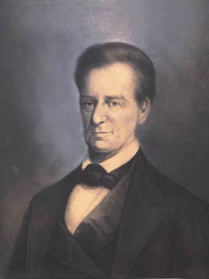 Governor of Louisiana: Joseph Marshall Walker (1784-1856)